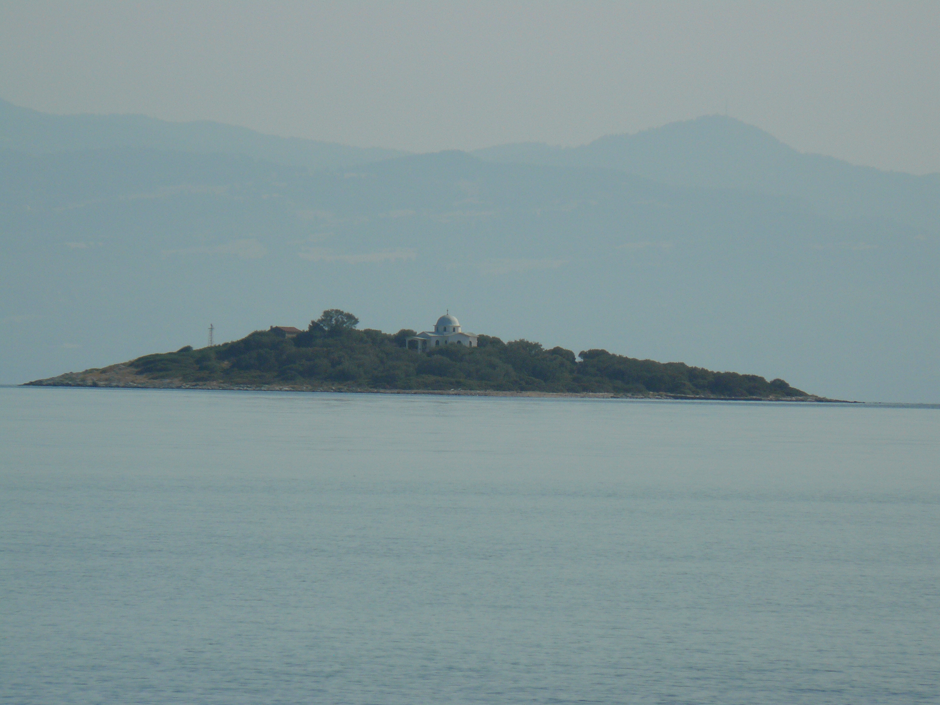 View from Skala Atalanti on Agios Nikolaos Island (Atalanti island)